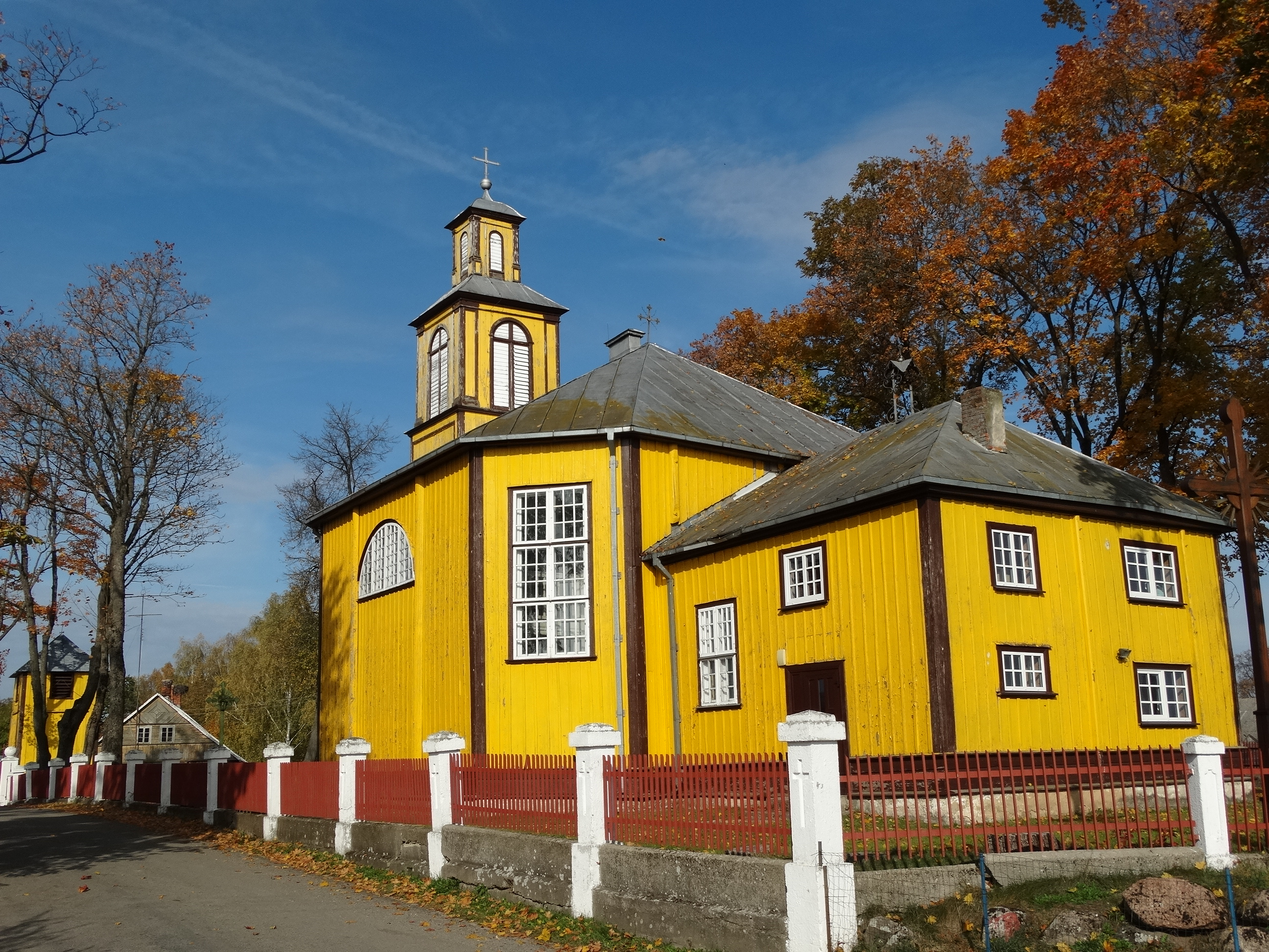 Roman Catholic Church, Šventežeris, Lazdijai district, Lithuania